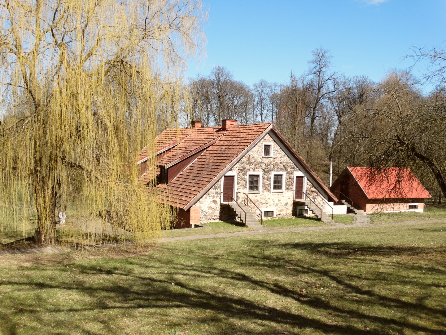 Šeduva manor, Raudondvaris, Radviliškis district, Lithuania